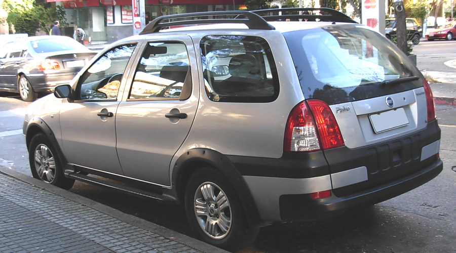 Rear view of a Fiat Palio III Adventure, pictured in Montevideo, Uruguay.